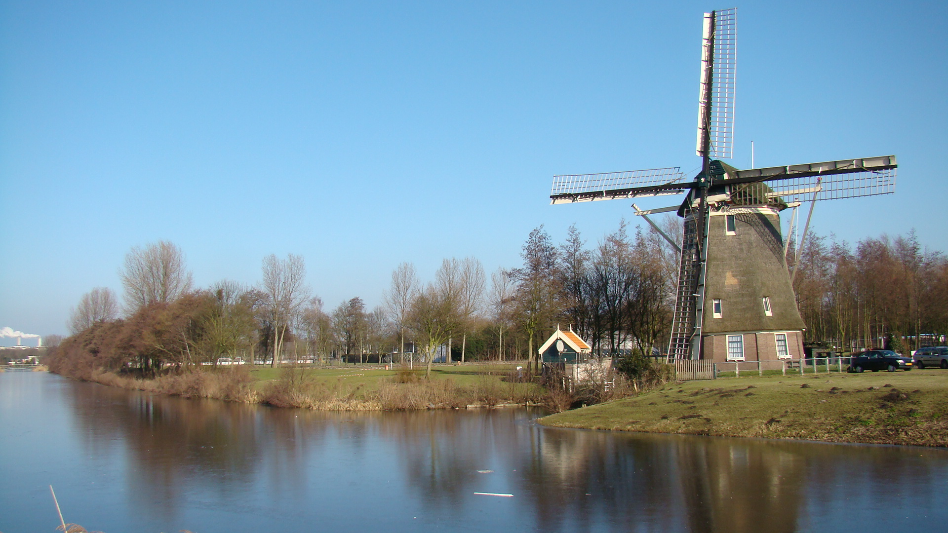 Windmill 1100 roe, Osdorp, Amsterdam